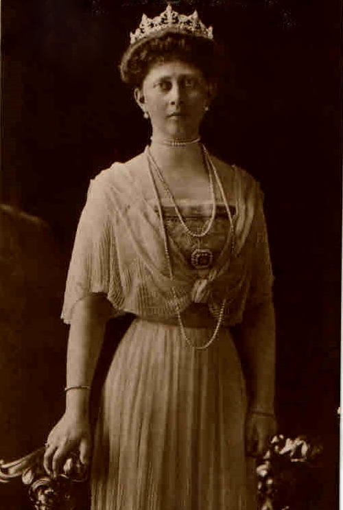 Princess Margaret of Prussia